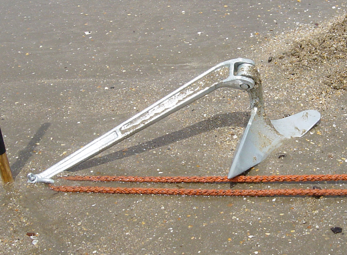 Author: C Smith